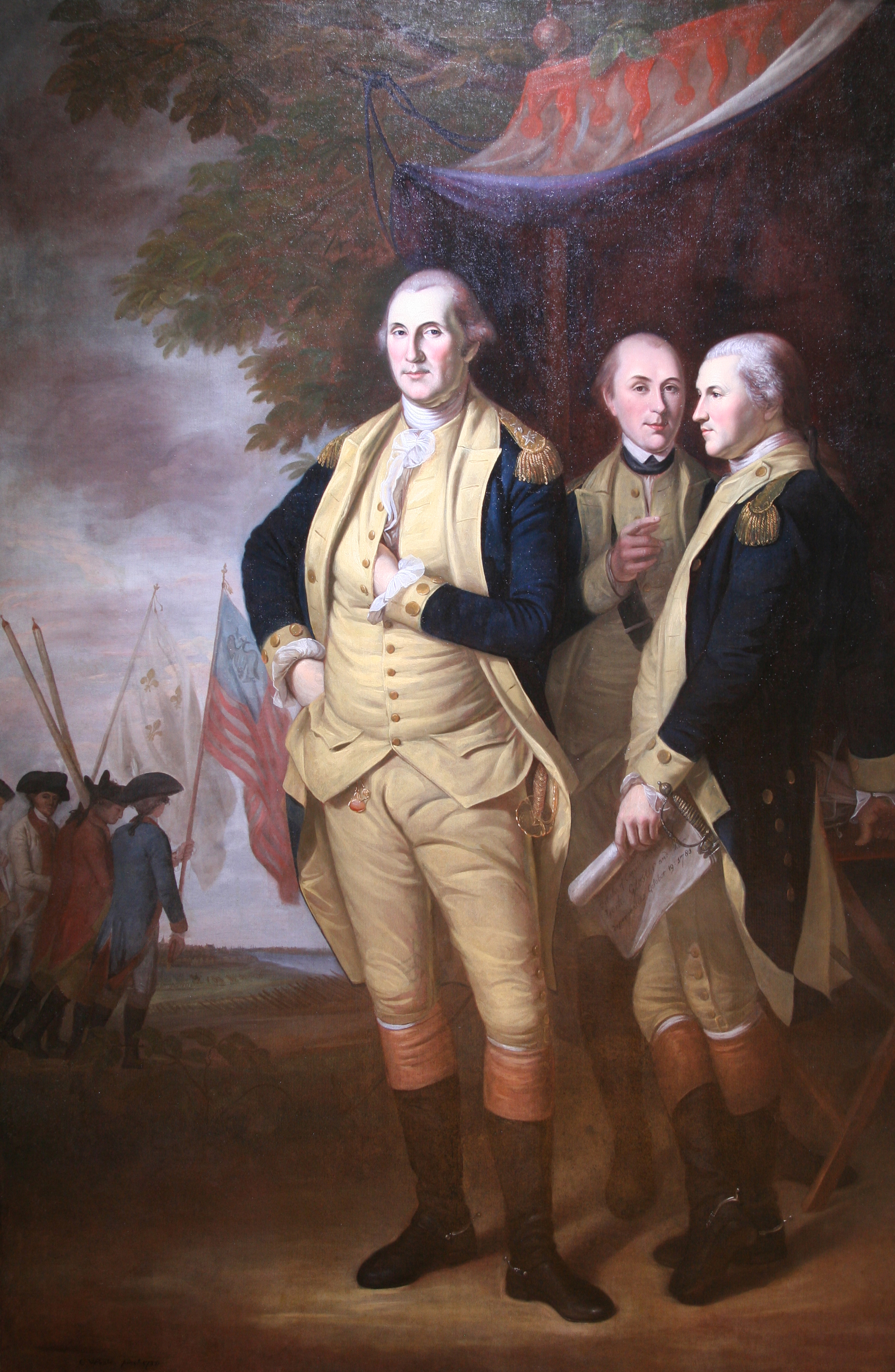 Full length portrait of George Washington with Lafayette and Tench Tilghman at Yorktown.